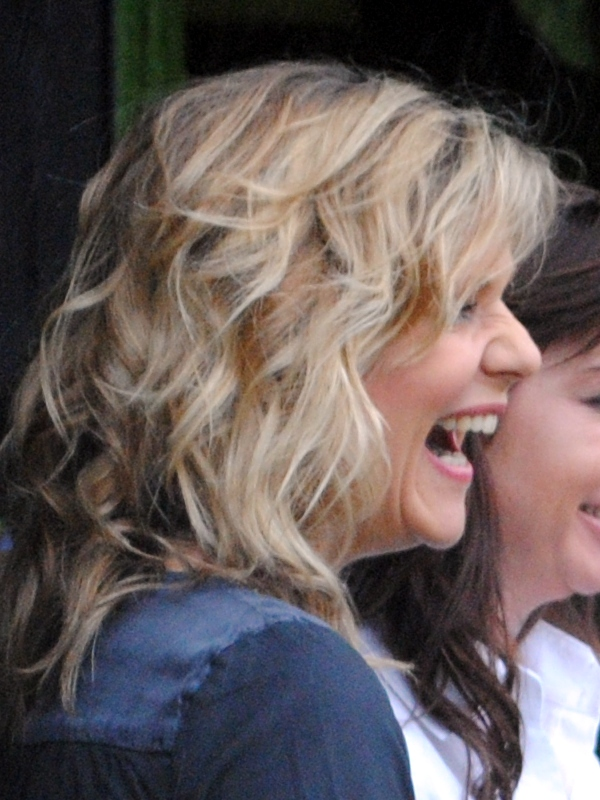 Crop of Linda Barker from photo with Monty Don, Fiona Phillips & Suzi Perry. Levels adjusted. described on Flickr as 'We joined forced with Black and Decker to attend the 2010 Ideal Home Show, Earl's Court, London'